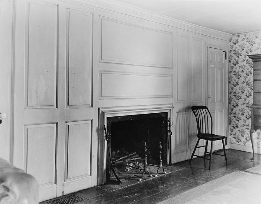 View of the fireplace in the bedroom of the Benjamin Lincoln House, HIngham, Plymouth County, Massachusetts. Historic American Buildings Survey, The Library of Congress, Washington, D. C.